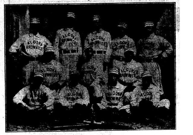 Publicity photo from the Algona Brownies, 1903